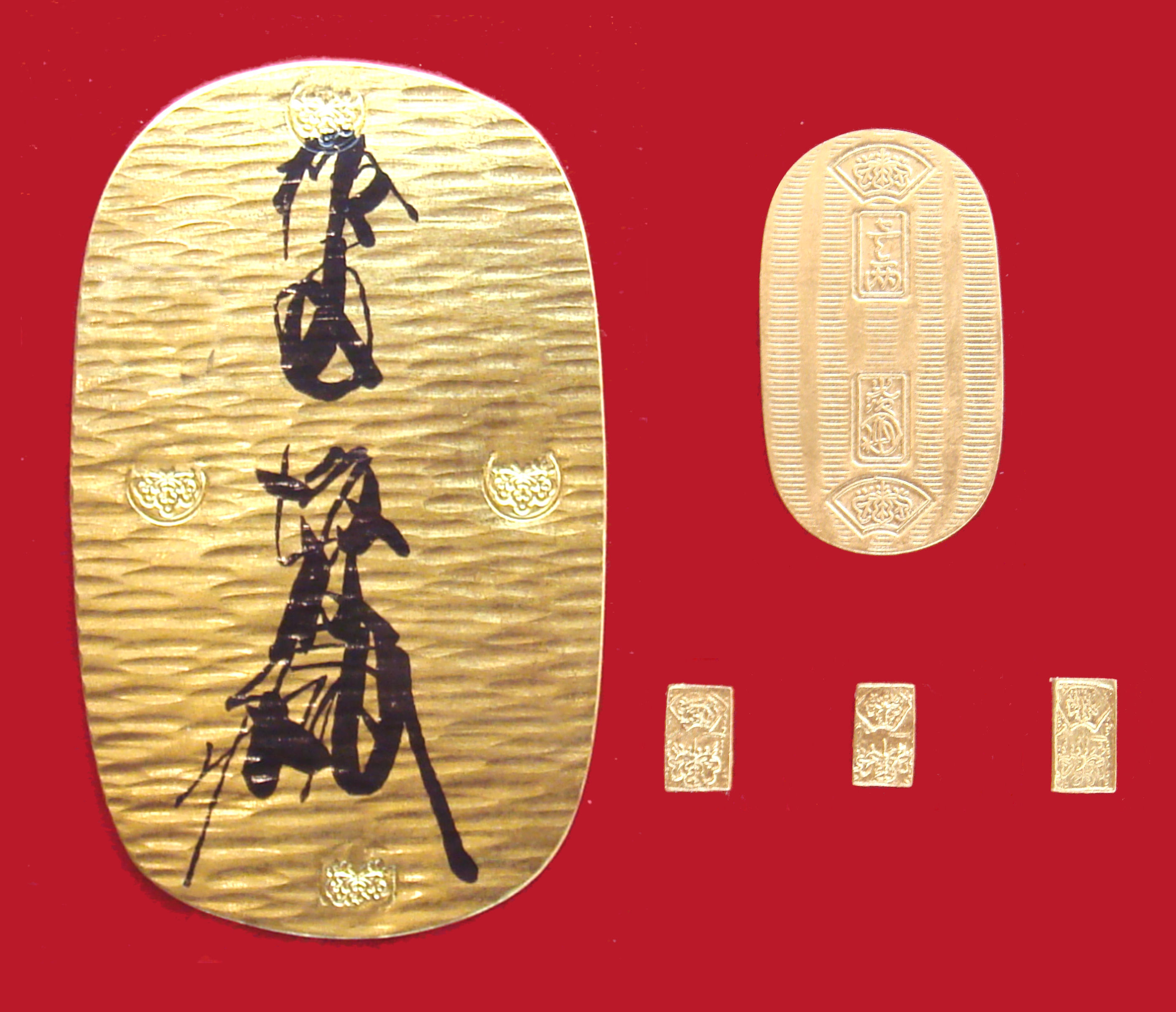 Keicho gold coinage. Oban & Koban & Ichibuban in Edo period, Japan. 1601-1695